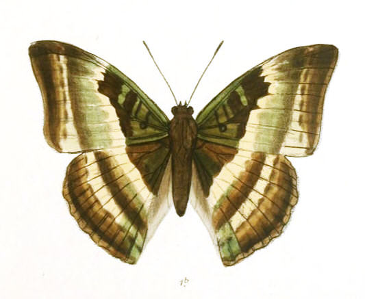 Auzakia danava